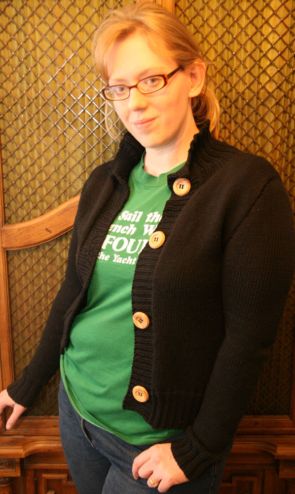 Sesame Cardigan from Magknits (August 2005 issue) Lion Brand Cotton Ease in Licorice colorway (about 5.25 balls used) Size US 6 needles Detail of Collar and Button Band Another view of cardigan BLOG POST ON SESAME